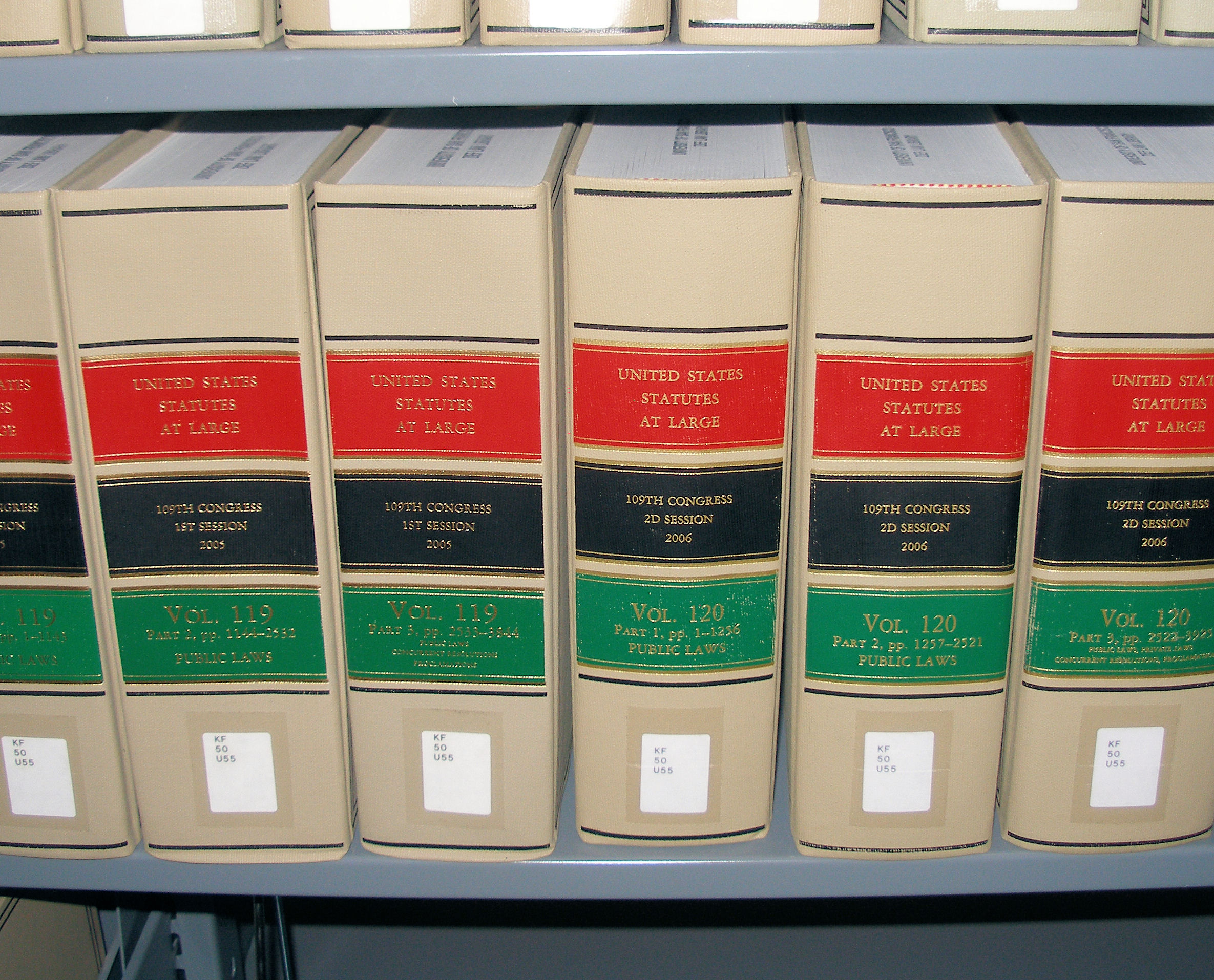 A few volumes of the United States Statutes at Large at a law library in San Francisco.